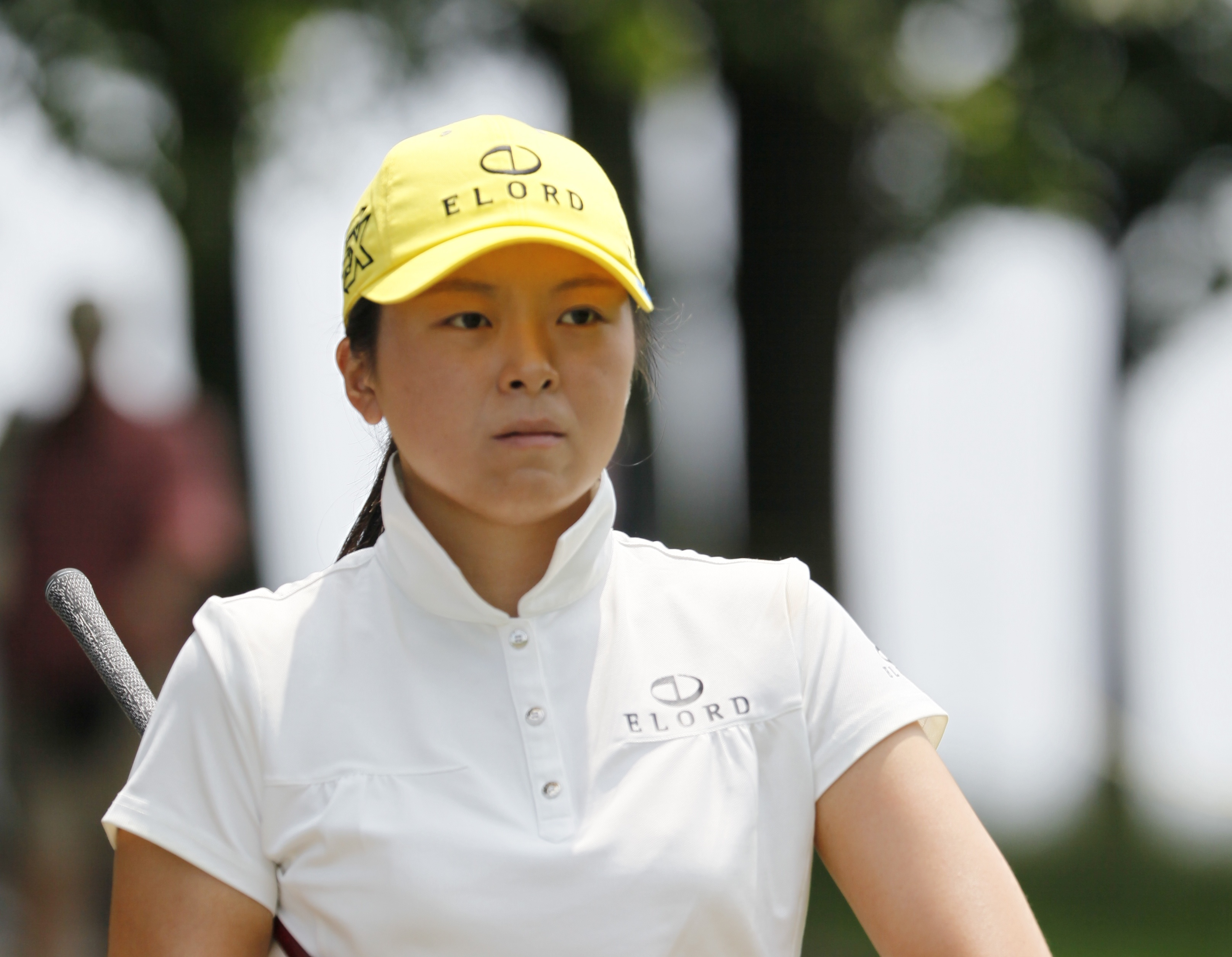 HAVRE DE GRACE, MD - JUNE 10: M.J. Hur (KOR) during practive round before 2009 LPGA Championship held at Bulle Rock Golf Course, on June 10, 2009 in Havre de Grace, Maryland. (Photo by Keith Allison)